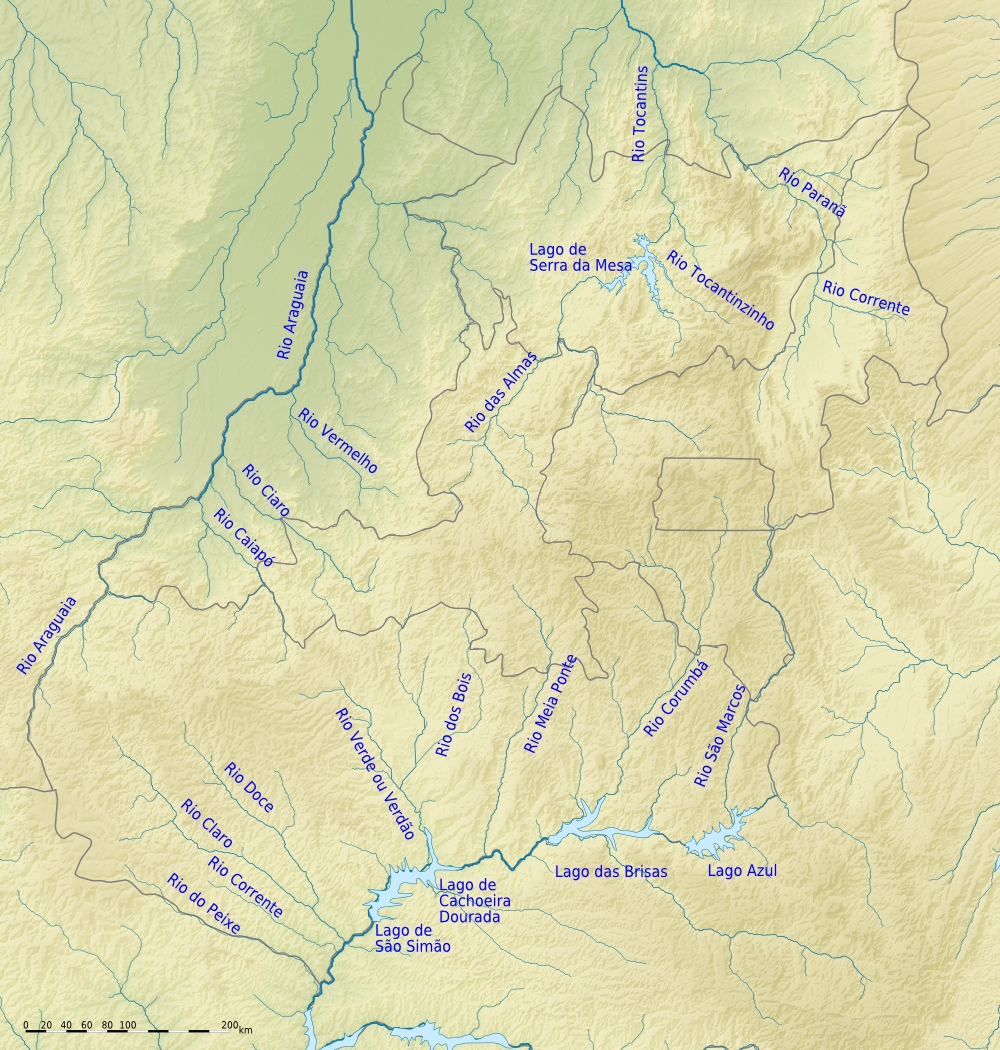 The rivers & lakes in brazilian state goiás.